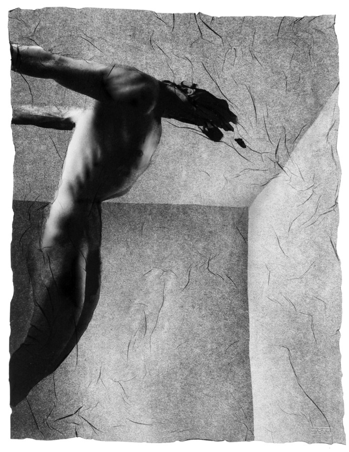 Photograph from Michal Macků